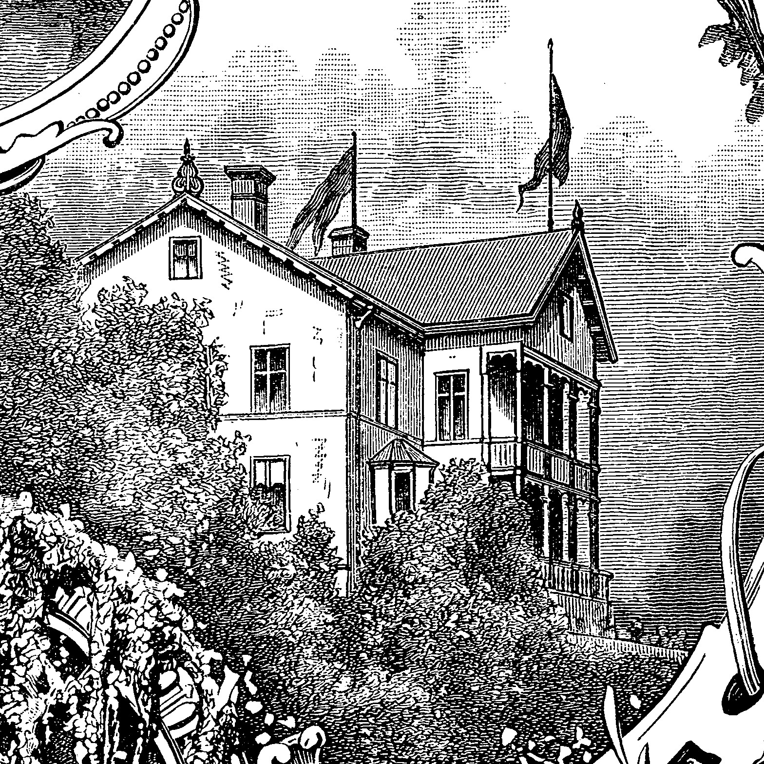 Badvillan Villa Jakobsberg i Mariekälla i Södertälje i Södermanland